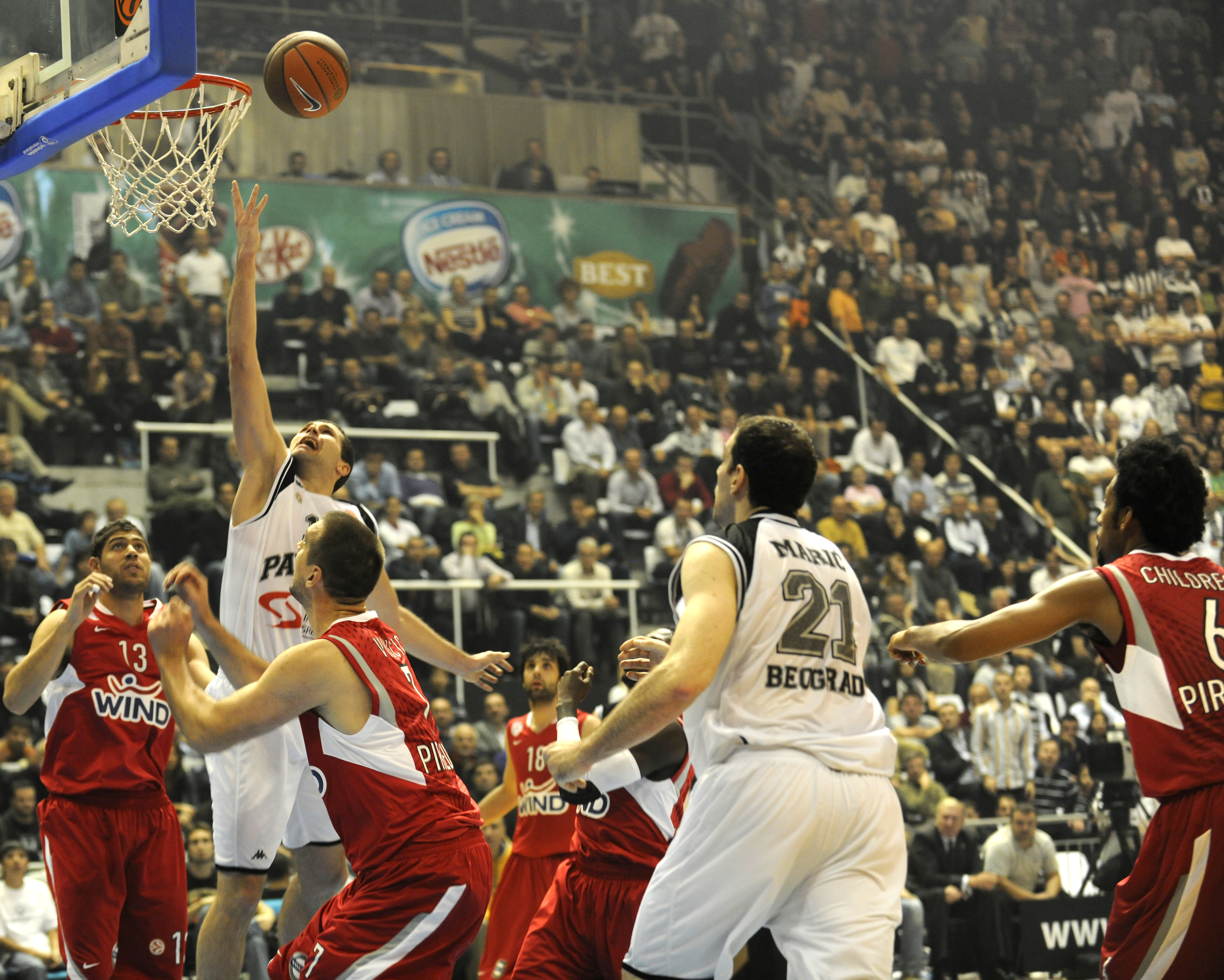 _DSC6981